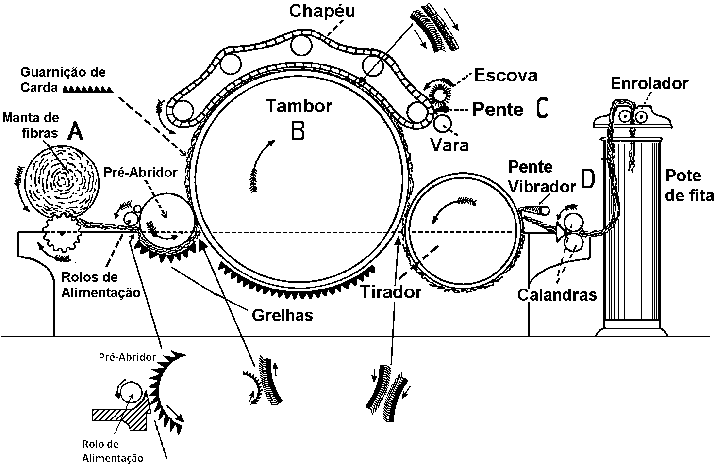 Diagram of a cross section of a card (revolving top-flat card) which takes the output of the finisher lapper and further cleans and aligns the fibers - a step in the mechanical process of spinning thread